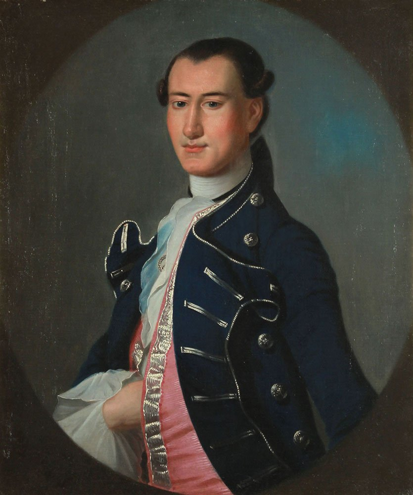 Colonel Daniel Horry by Jeremiah Theus, 1757, oil on canvas, 30.25 x 25.125 inches, Columbus Museum, Columbus, Georgia